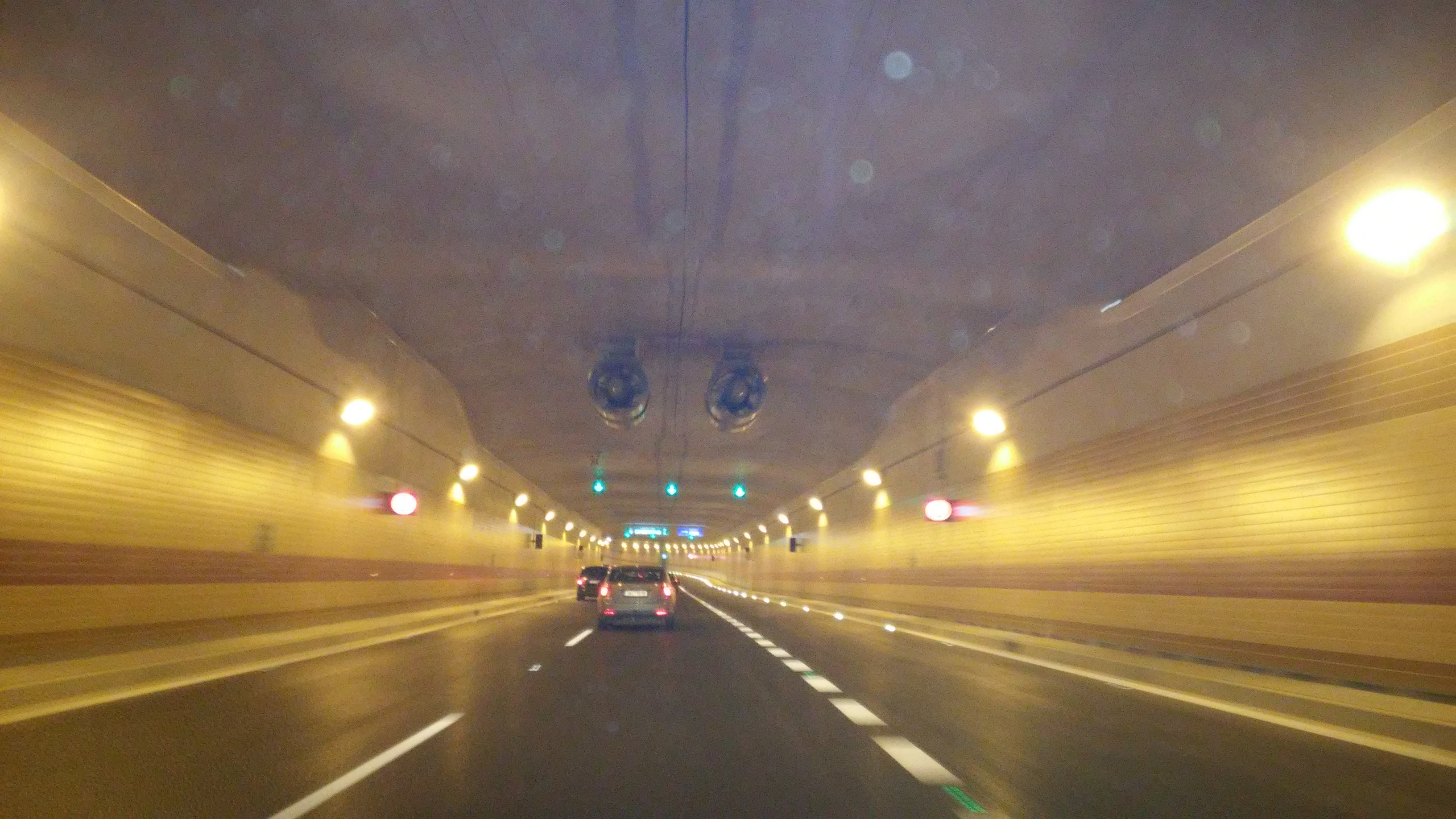 The longest city tunnel in Europe (5 502 m)